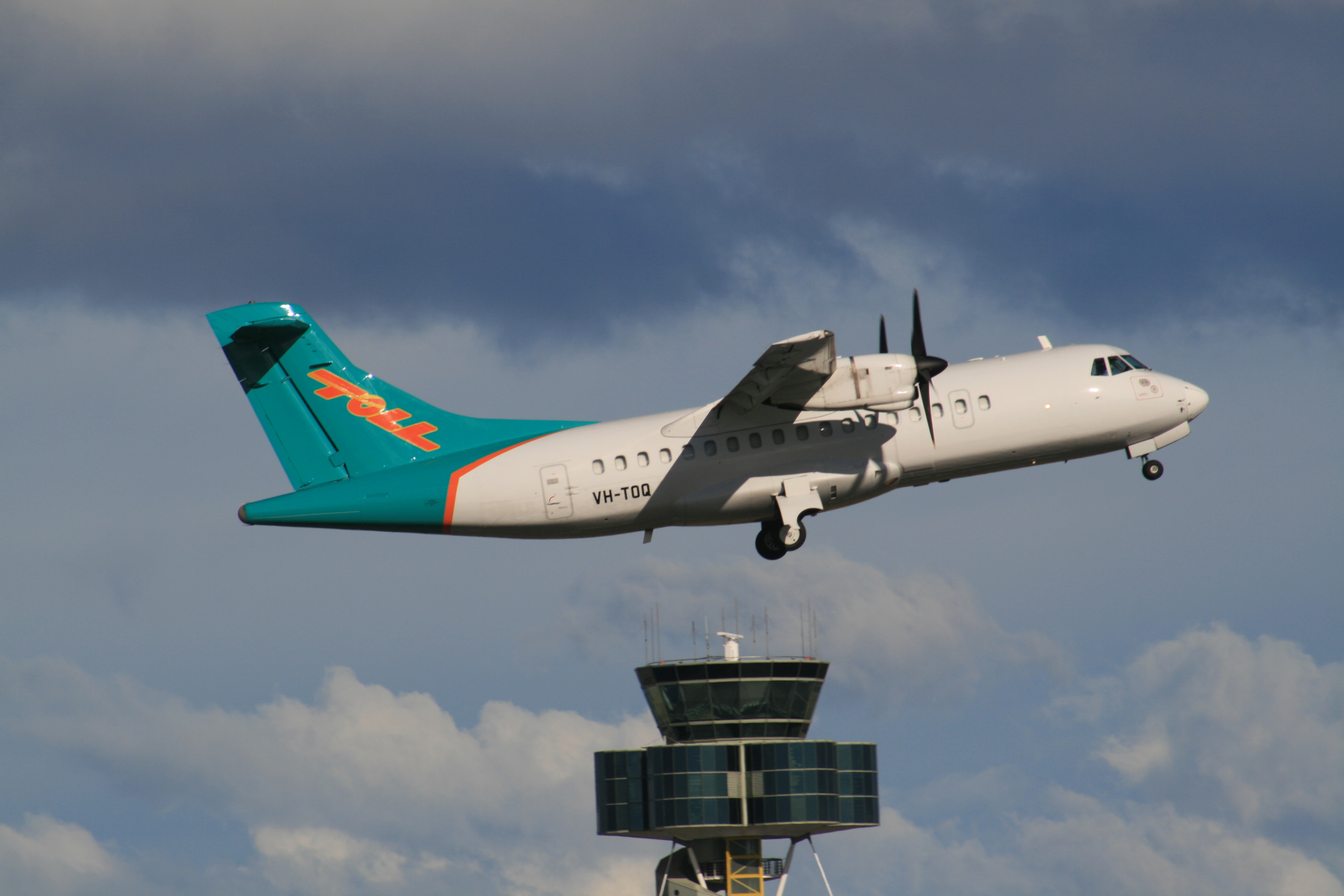 Jetcraft's first ATR 42-300, VH-TOQ, departing from Sydney's Kingsford Smith International Airport. Digital photo taken by YSSYguy on July 7 2007 & uploaded for use in article about Jetcraft.